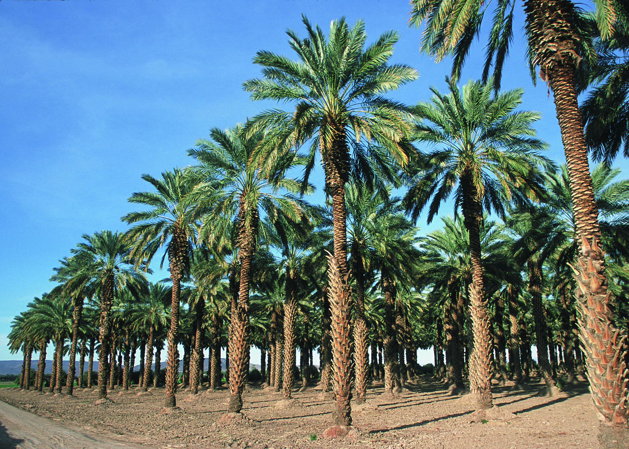 Dates growing in Yuma, Az.